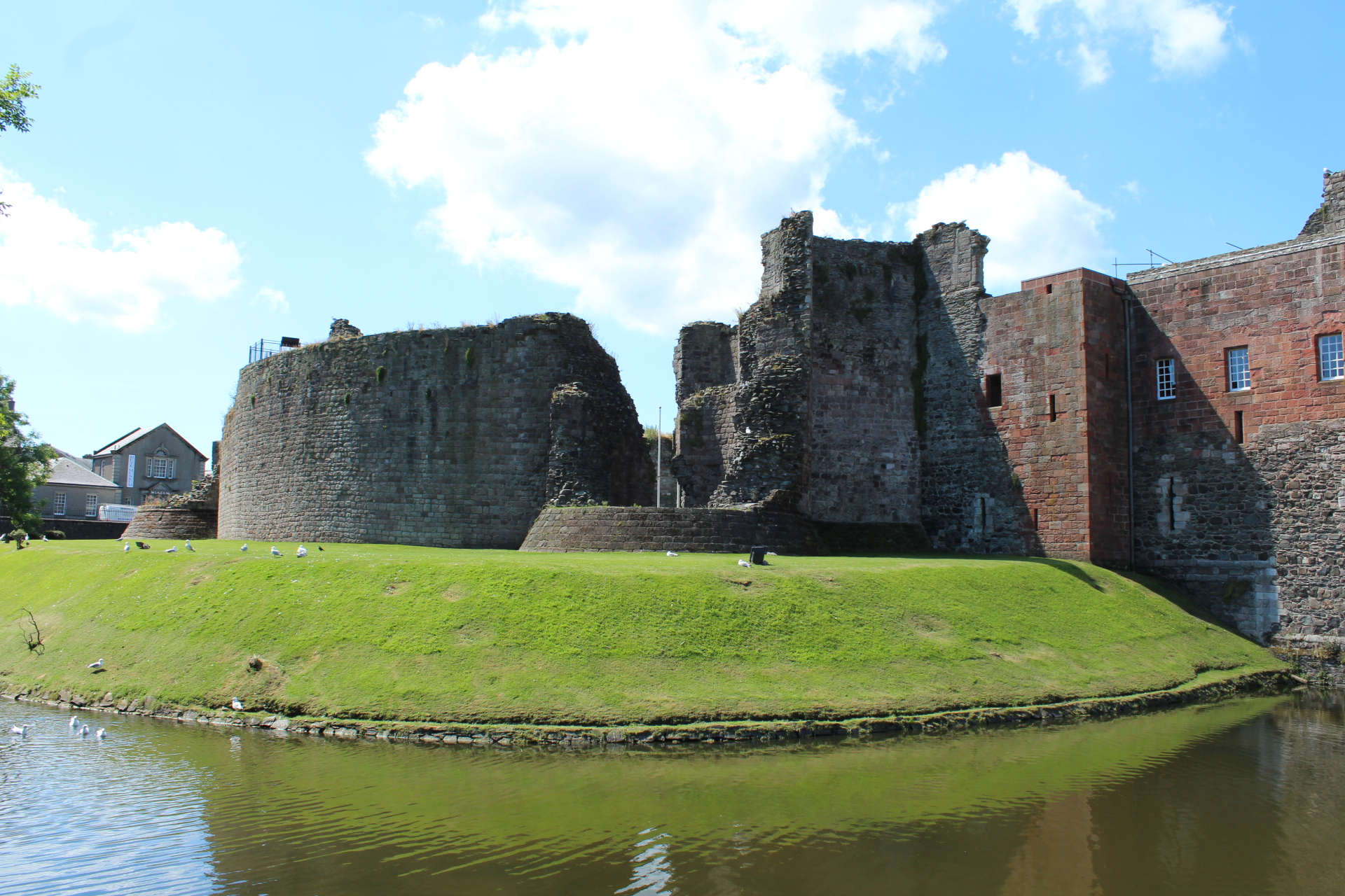 Rothesay Castle, Isle of Bute